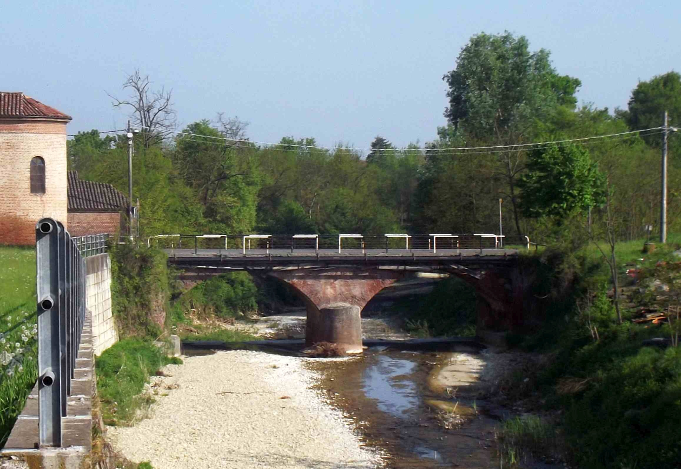 Sezzadio bridge over the creek Stanavazzo